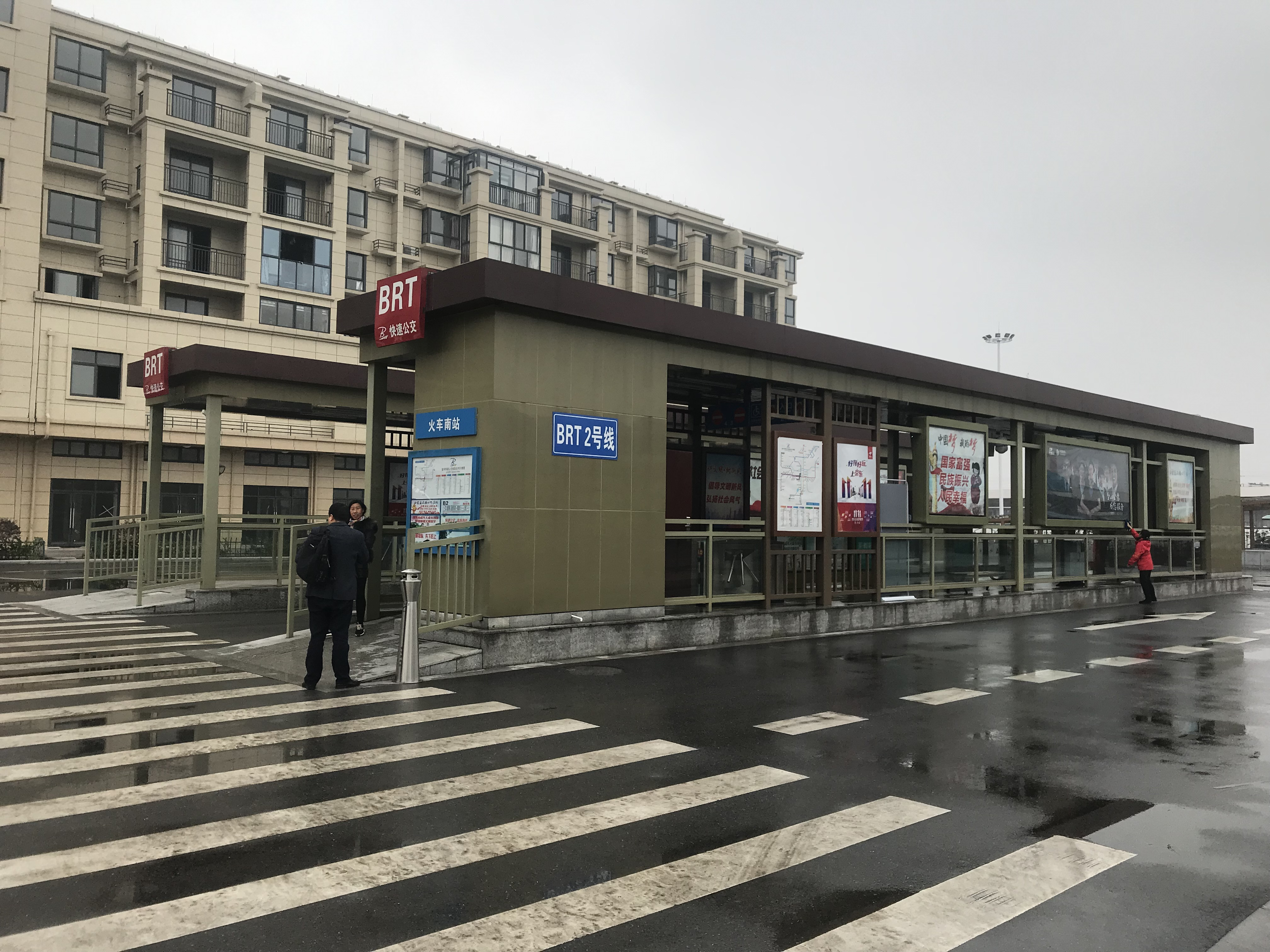 201812 Jinhuanan Railway Station Bus Terminus